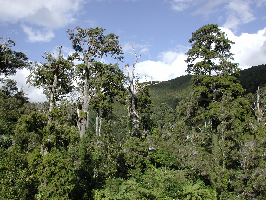 Native bush with mature rimu trees in Kaitoke Park, Upper Hutt.